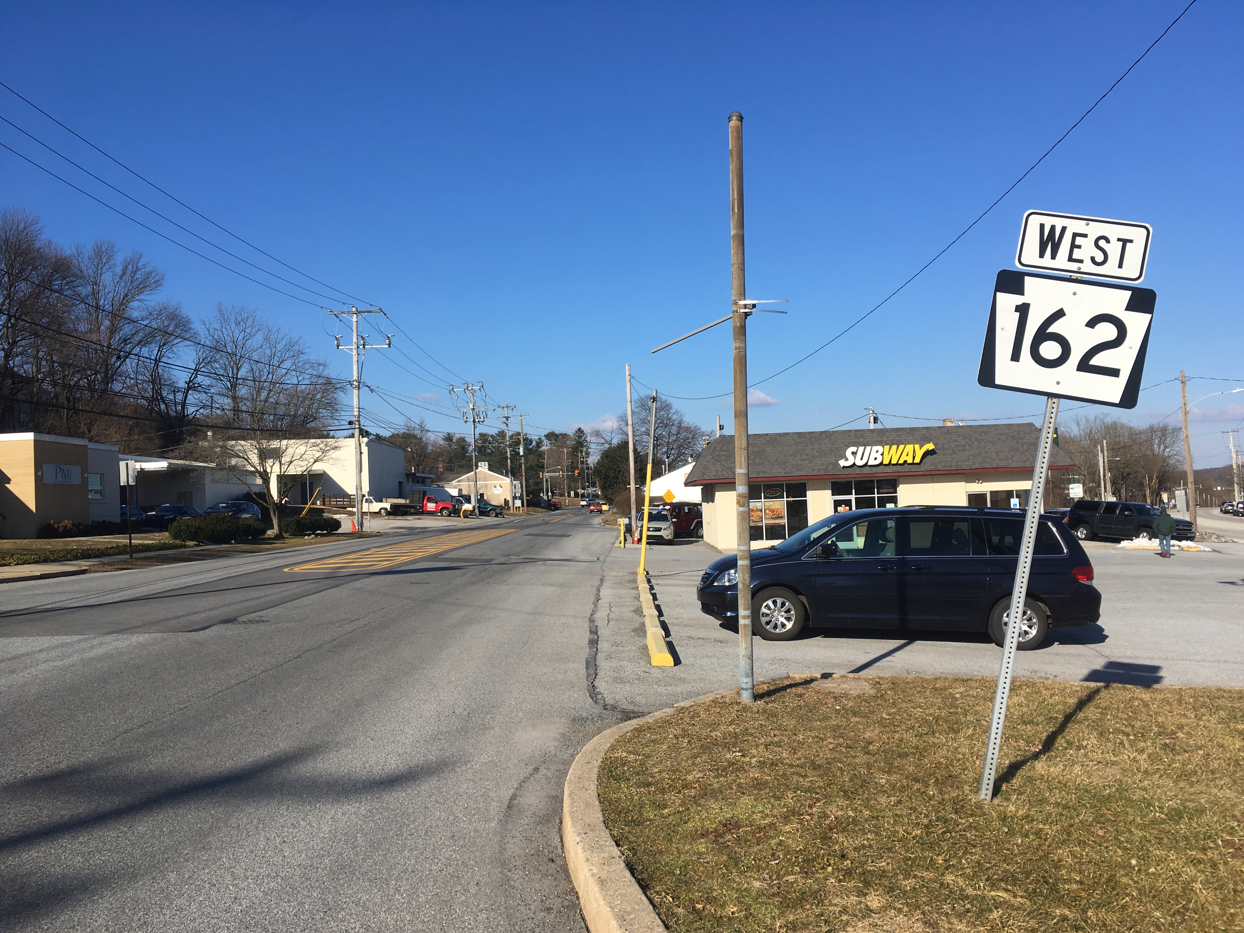 Westbound Pennsylvania Route 162 (Strasburg Road) past its eastern terminus at U.S. Route 322 Business (Downingtown Pike) in West Chester, Pennsylvania